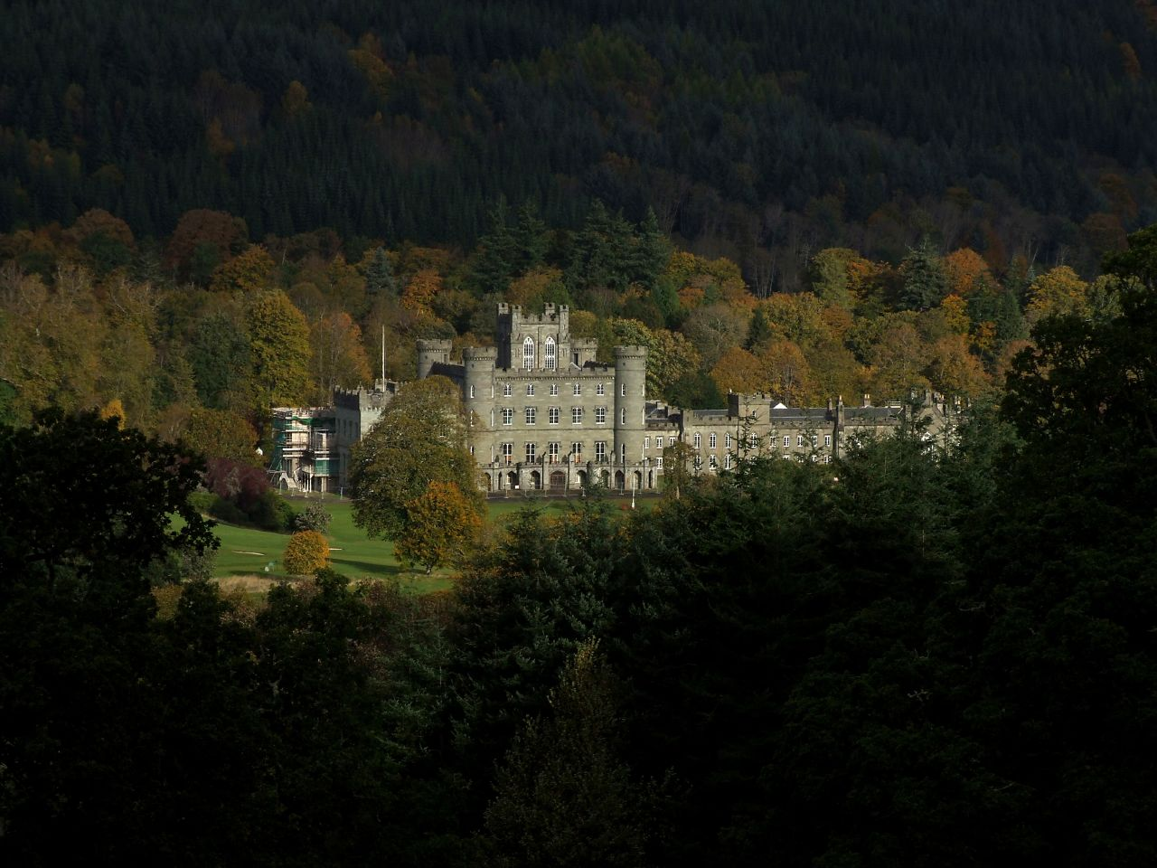 Shaft of sunlight